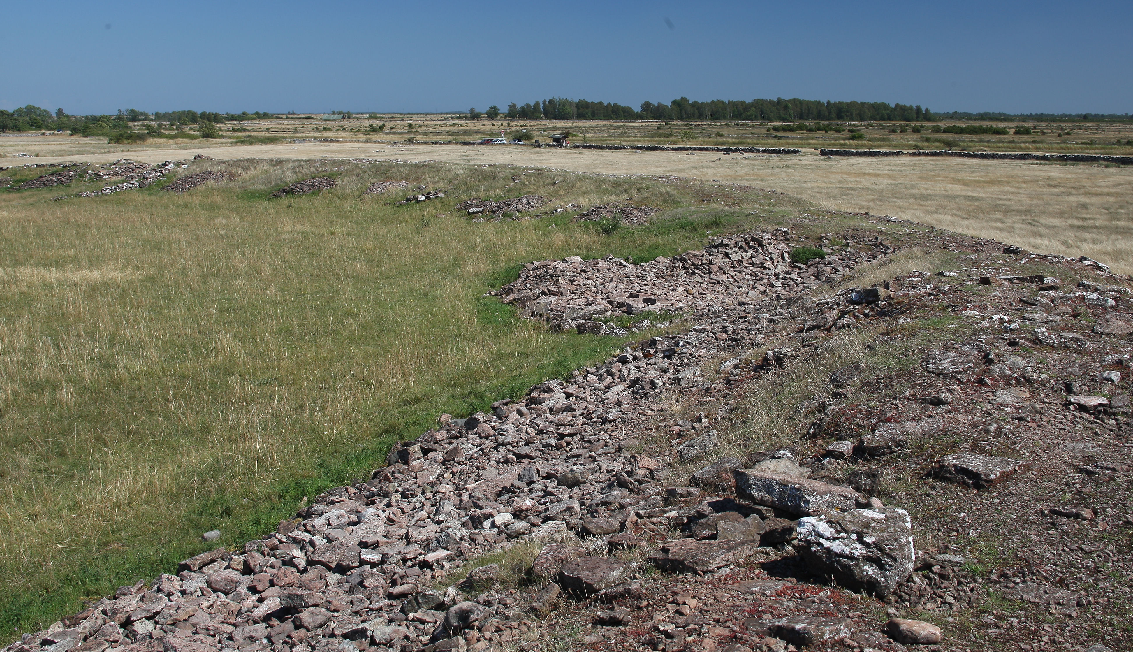 Remains of the outer wall of Bårby fortification on Öland